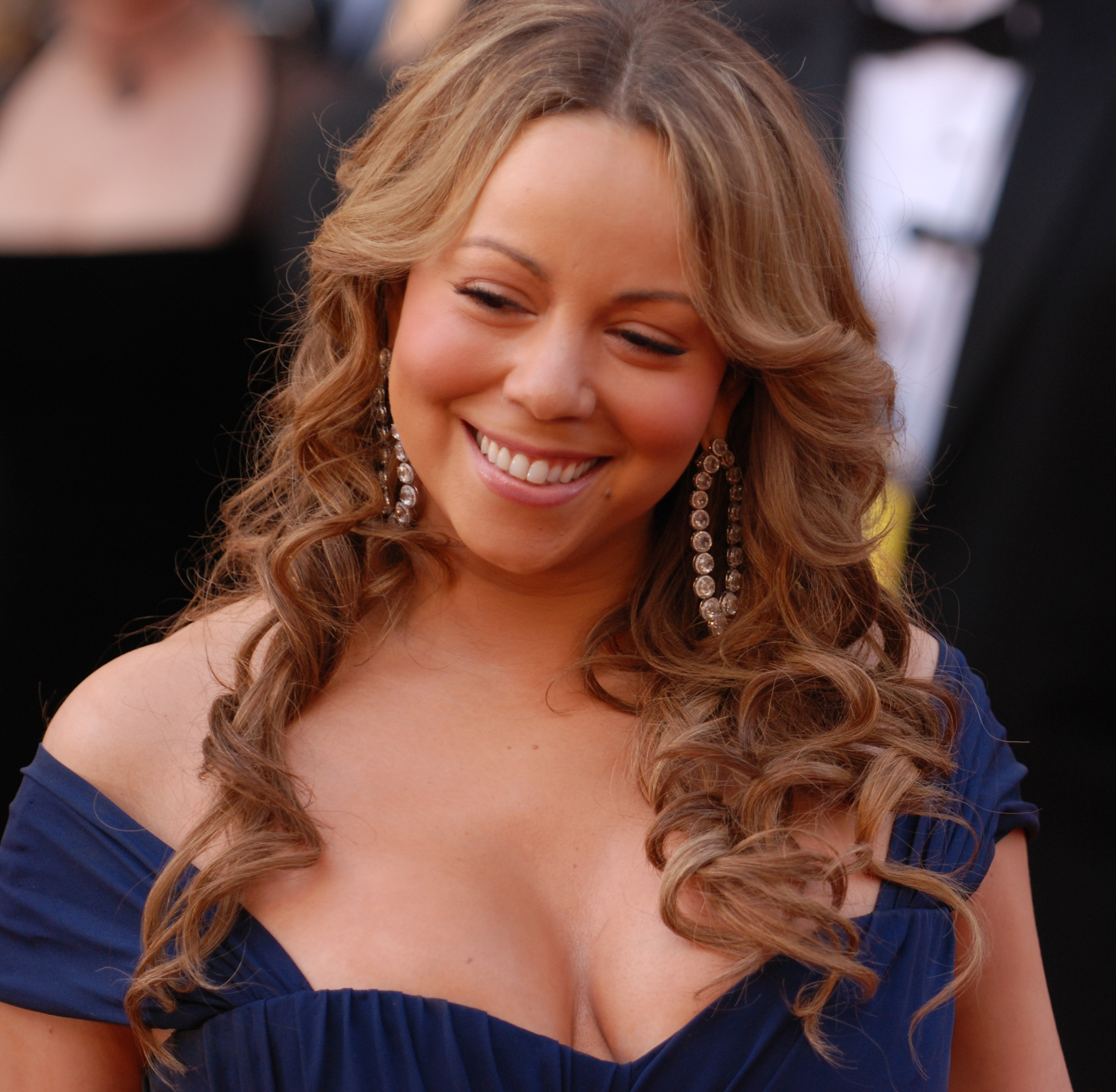 Mariah Carey during red carpet interviews at the 82nd Academy Awards.